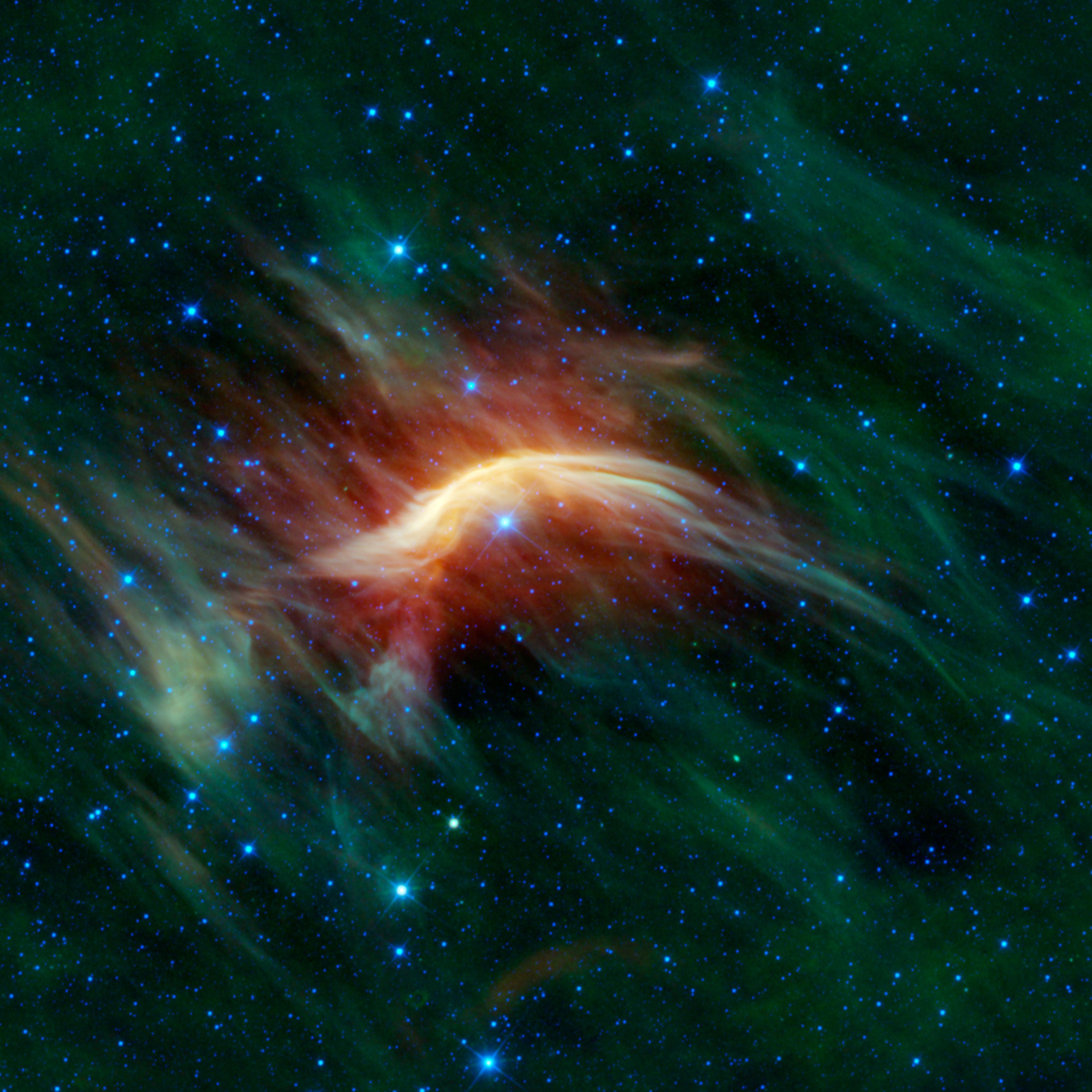 This infrared image from NASA's WISE telescope shows the runaway star Zeta Ophiuchi as it creates a bright shockwave (yellow arc) in an interstellar dust cloud as it zooms through space.